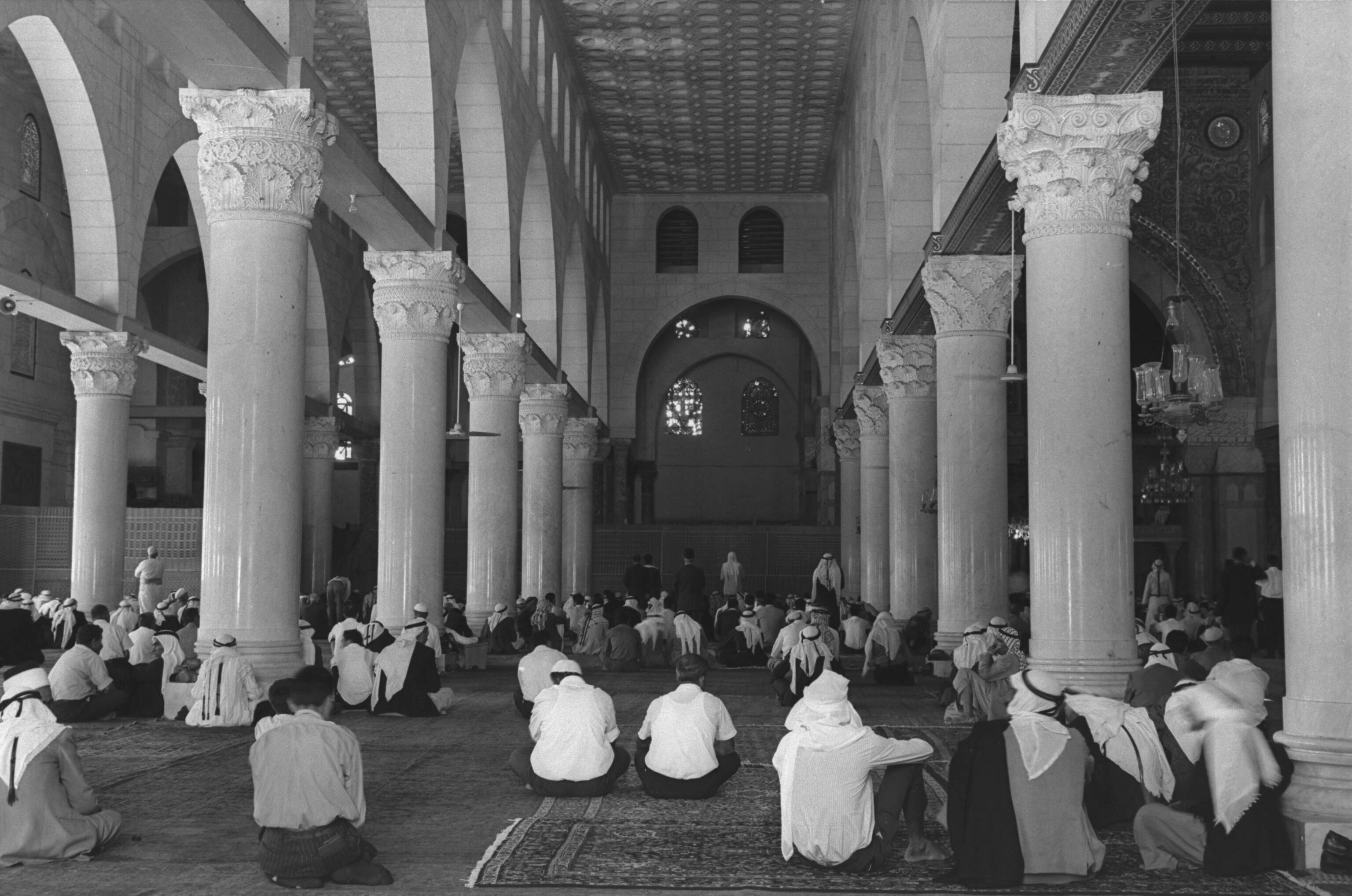 Prayer service at Al-Aqsa Mosque in the Old City of Jerusalem.